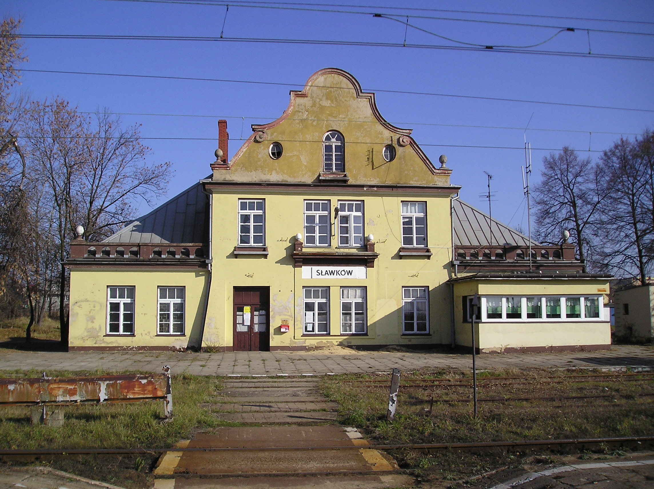 Train station in Sławków (Poland)